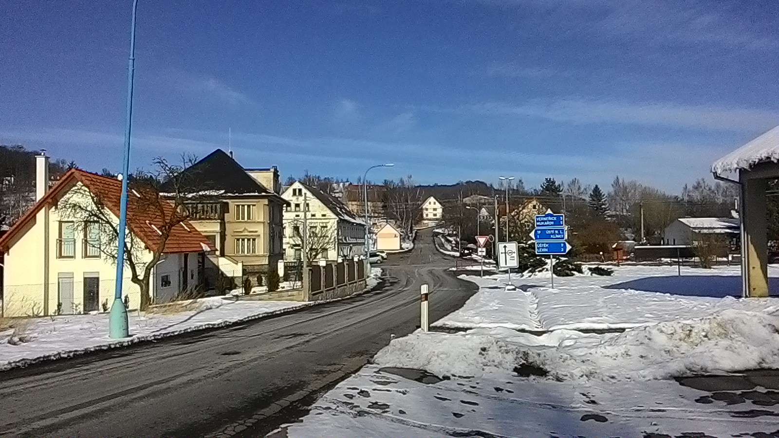 Main common in the village of Lovečkovice, Ústí nad Labem Region, CZ